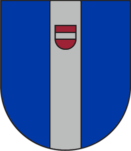 Coat of arms of the city of Ape, Latvia “Azure a pale Argent charged in the chief with an inescutcheon in the Latvian national colours.”